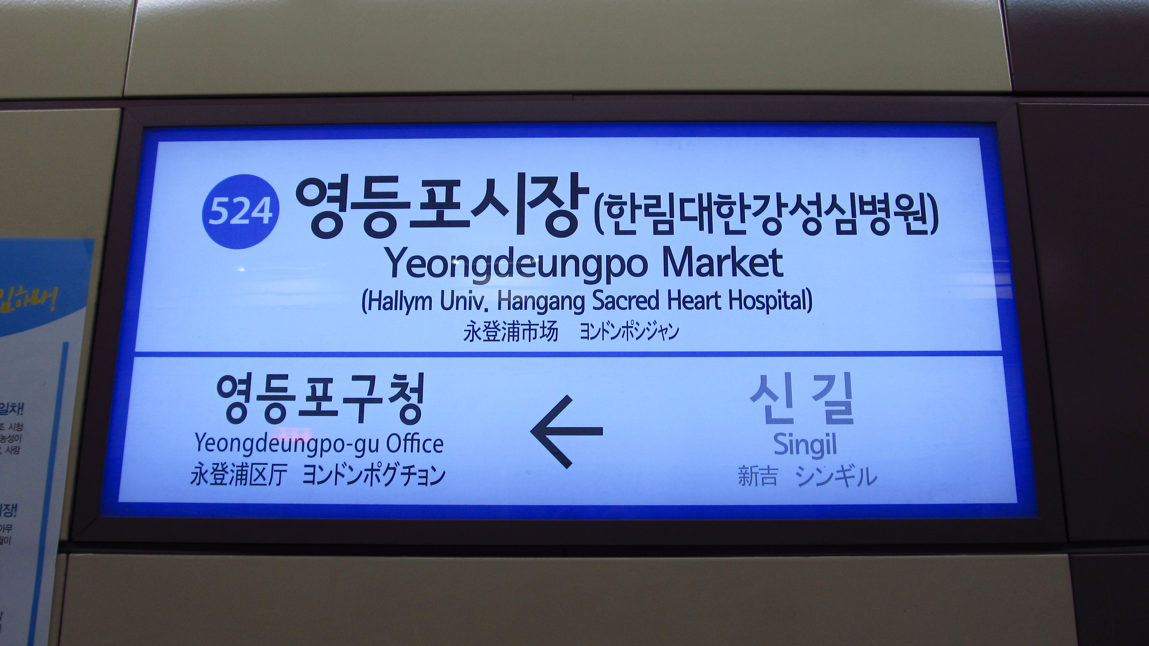 A sign of Yeongdeungpo Market Station on Seoul Subway Line 5